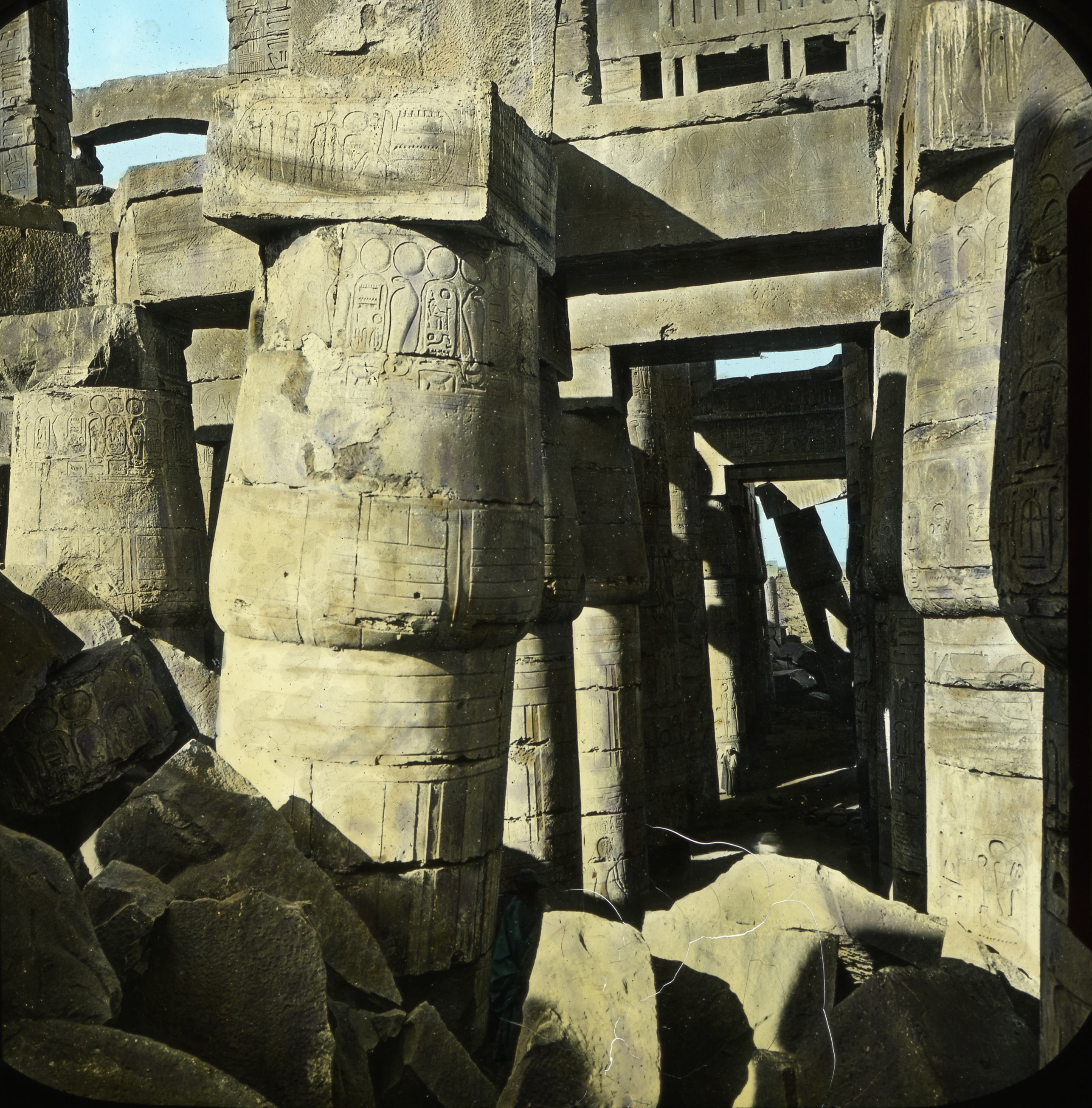 Egypt. Karnak [selected images]. View 01: Egypt - Karnak, Great Hall., n.d., This slide colored by Joseph Hawkes. Brooklyn Museum Archives (S10.08 Karnak, image 9873).